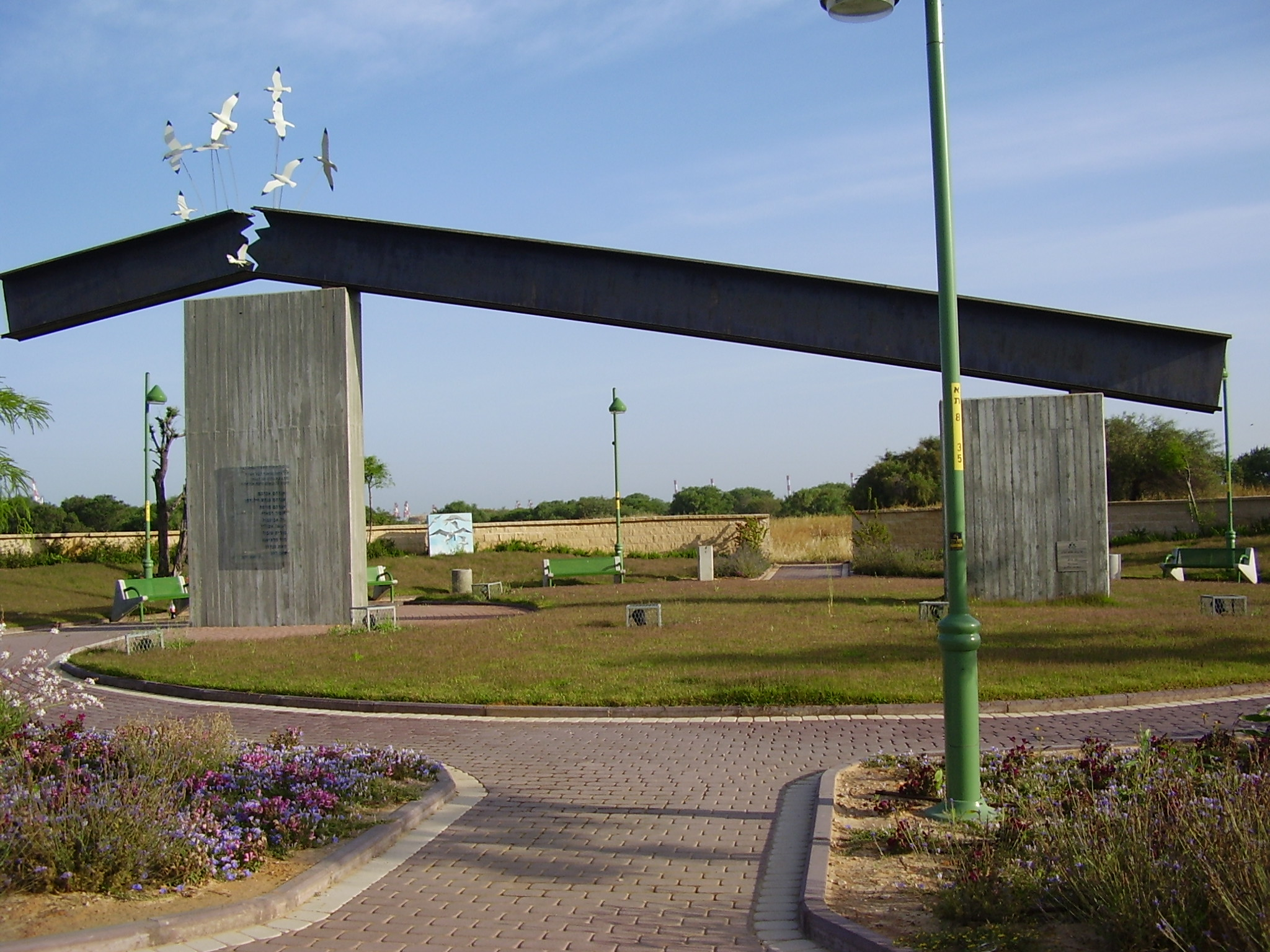 Memorial to the victims of the terror attack in Ashdod port